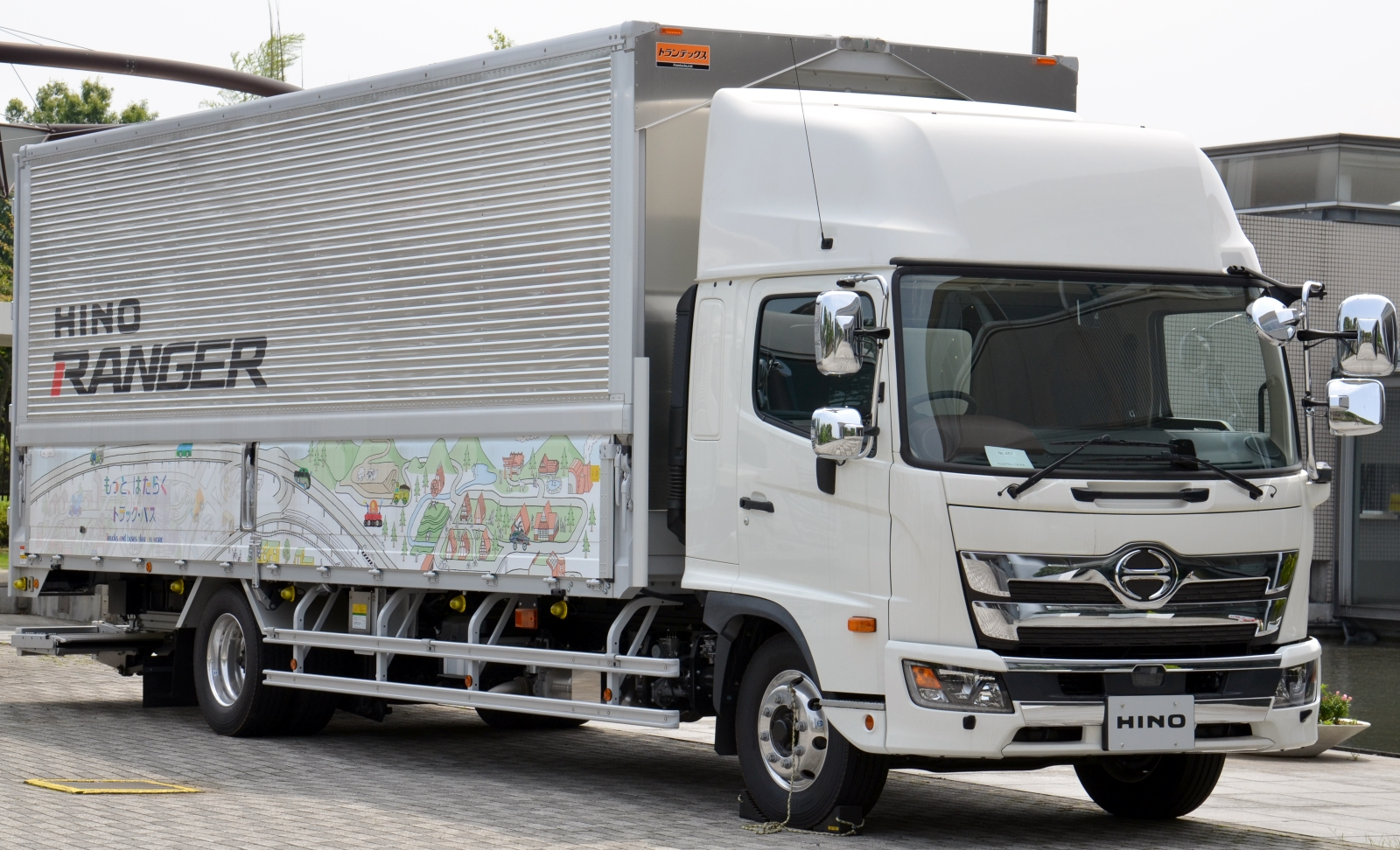 Hino Ranger FE